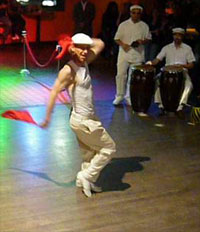 Dance Performance in the "Rumba Columbia" style by "Los Rumberos Europeos" in Washington DC, USA.